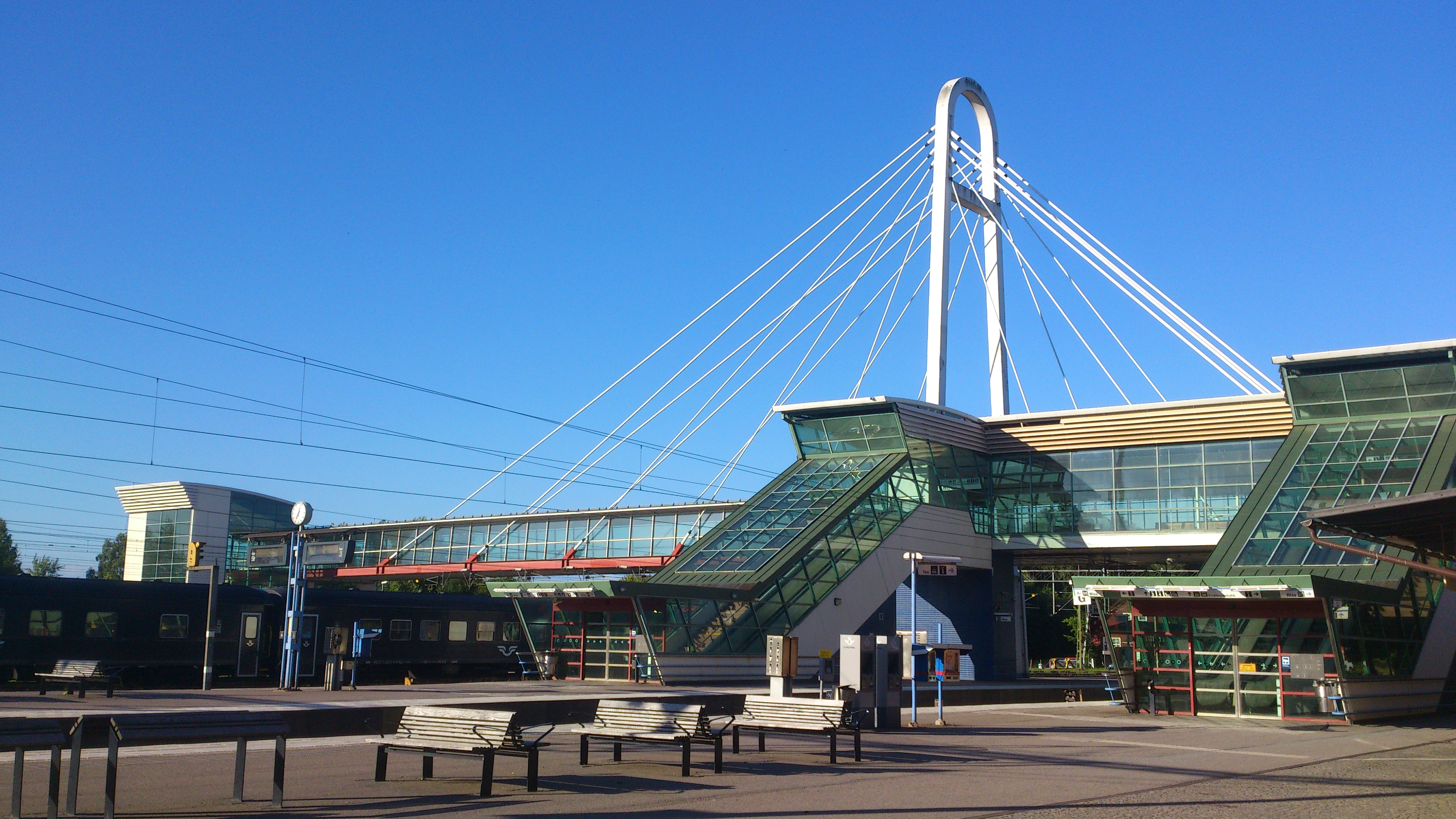 The railway station in Hallsberg, Sweden, a great railway hub on Västra stambanan.